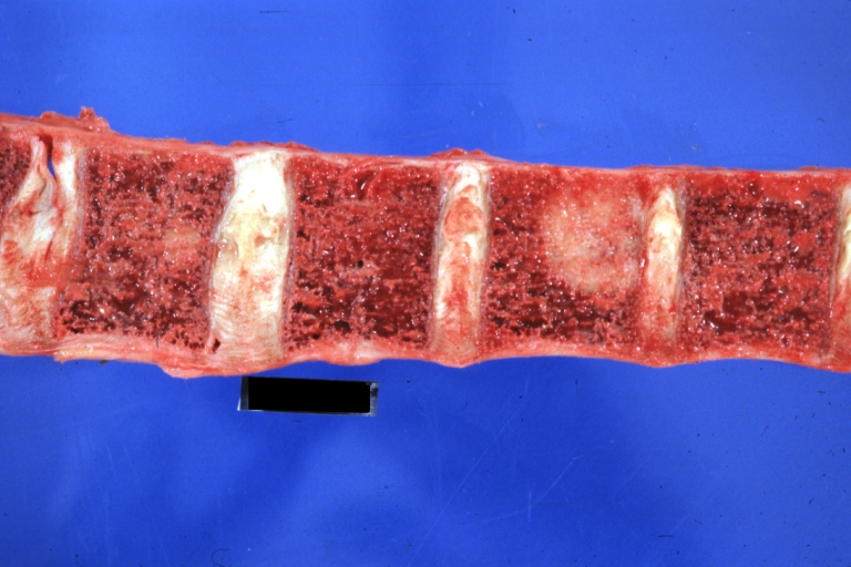 Bone, vertebra: Metastatic Carcinoma: Gross natural color close-up excellent primary tail of pancreas